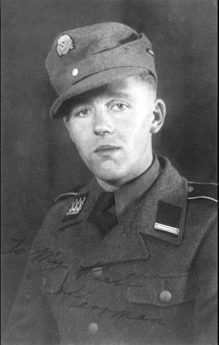 Picture of William Britten, Englishman who joined the British Free Corps